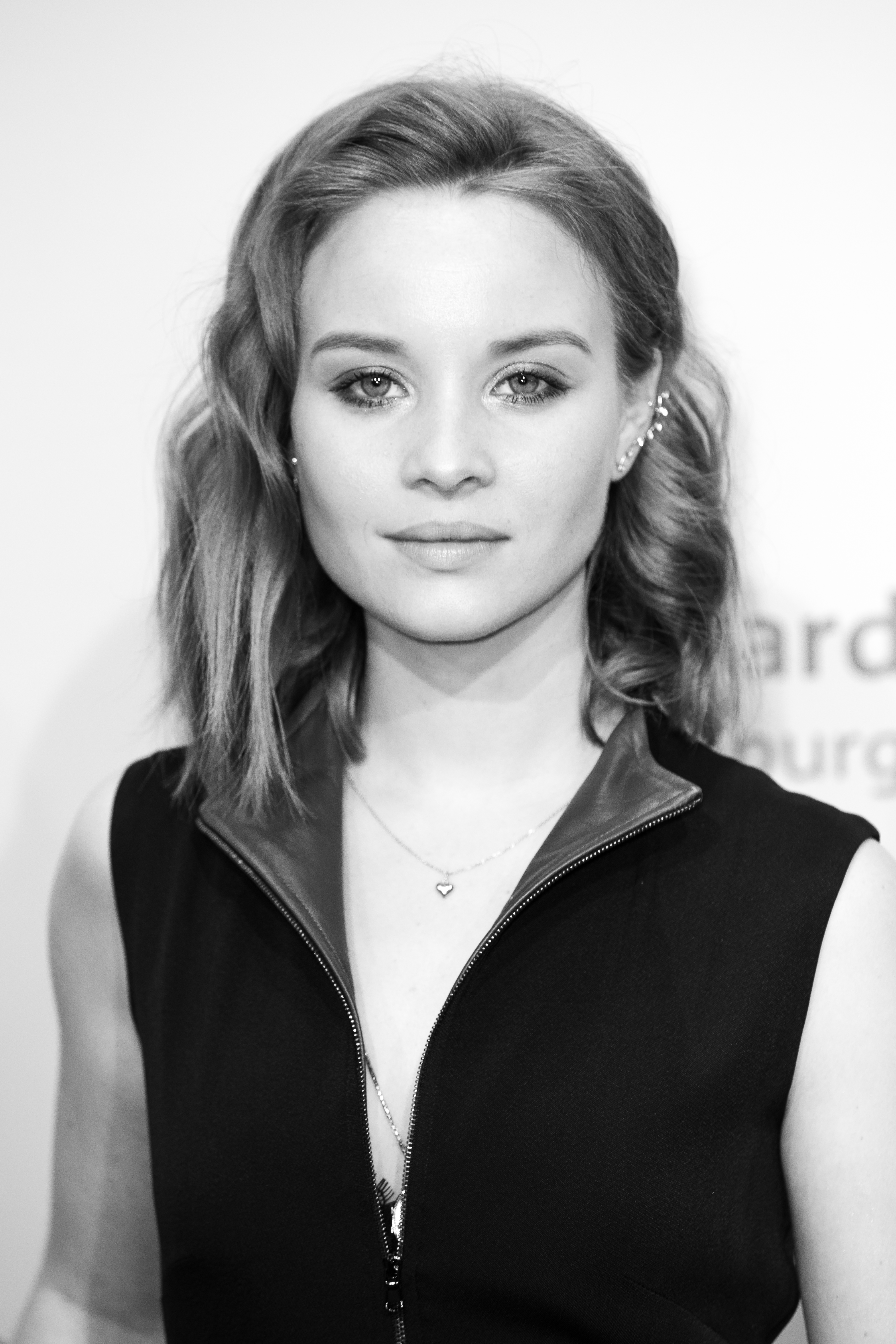 Sonja Gerhardt at the Medienboard Party on the occasion of the 69th Berlinale in Ritz-Carlton, Potsdamer Platz